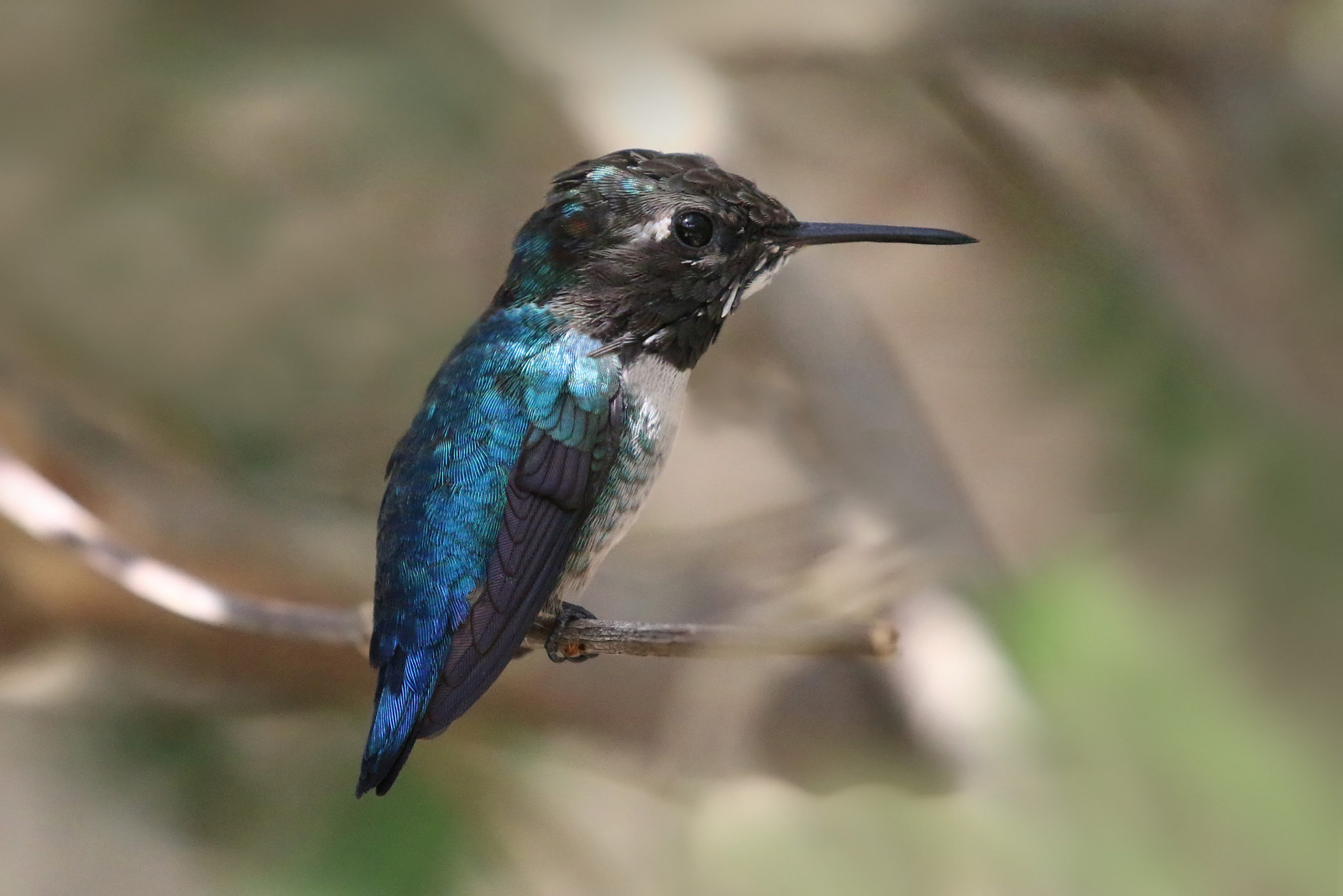 Bee hummingbird (Melisuga helenae) adult male non-breeding, Cuba